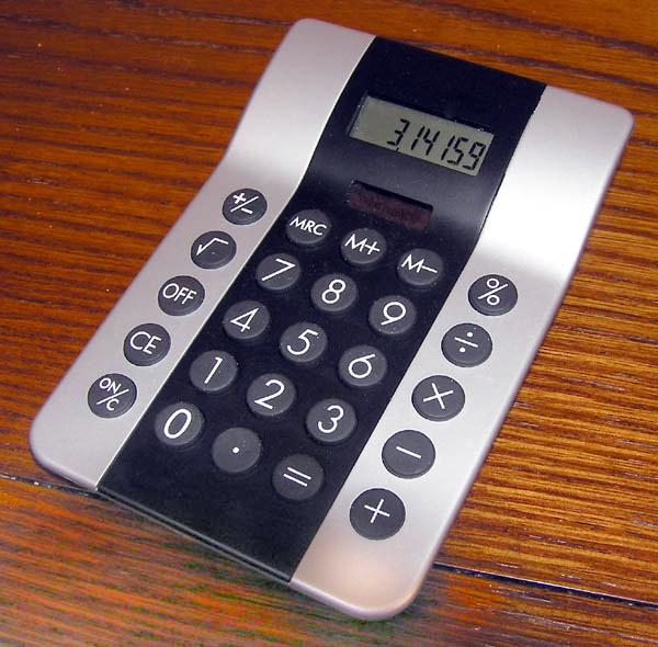 Calculator. Photographed by Adrian Pingstone in March 2004, and released to the public domain. Thanks to Kodabar for removing the shadow.